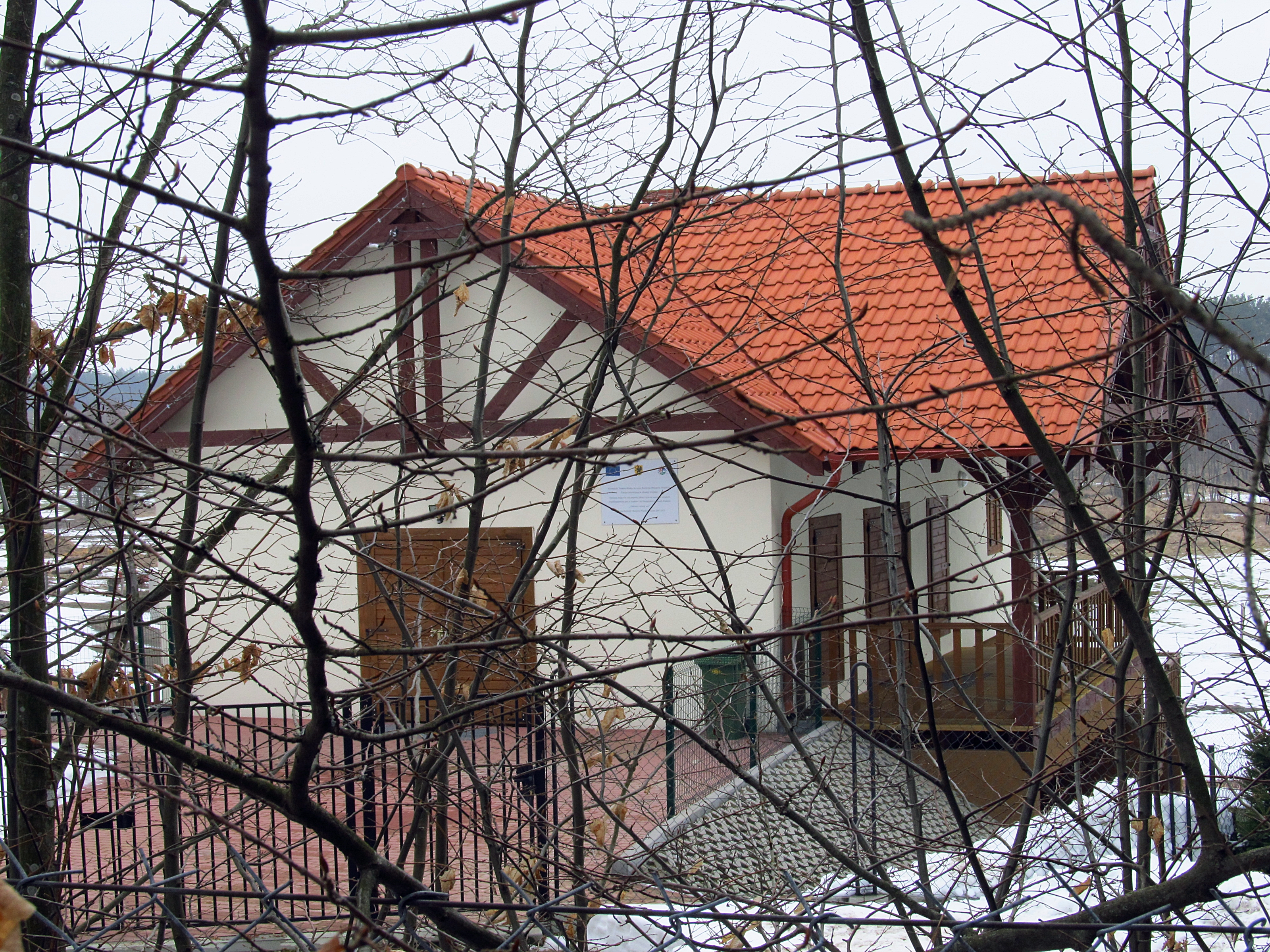 Lounge with close